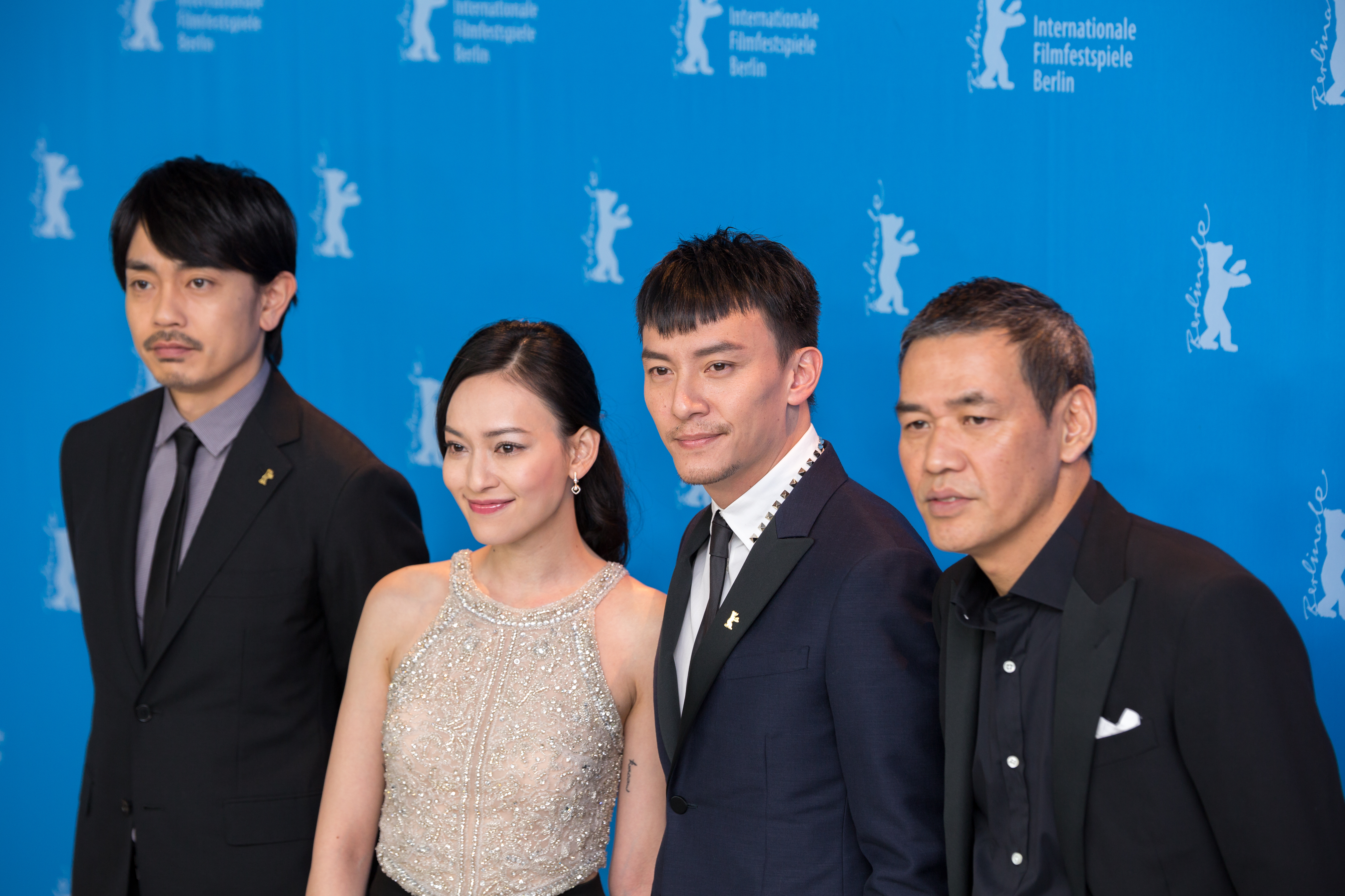 The actors Shô Aoyagi, Yi Ti Yao, Chen Chang and the director Sabu, the film team of Mr. Long at the Berlinale 2017